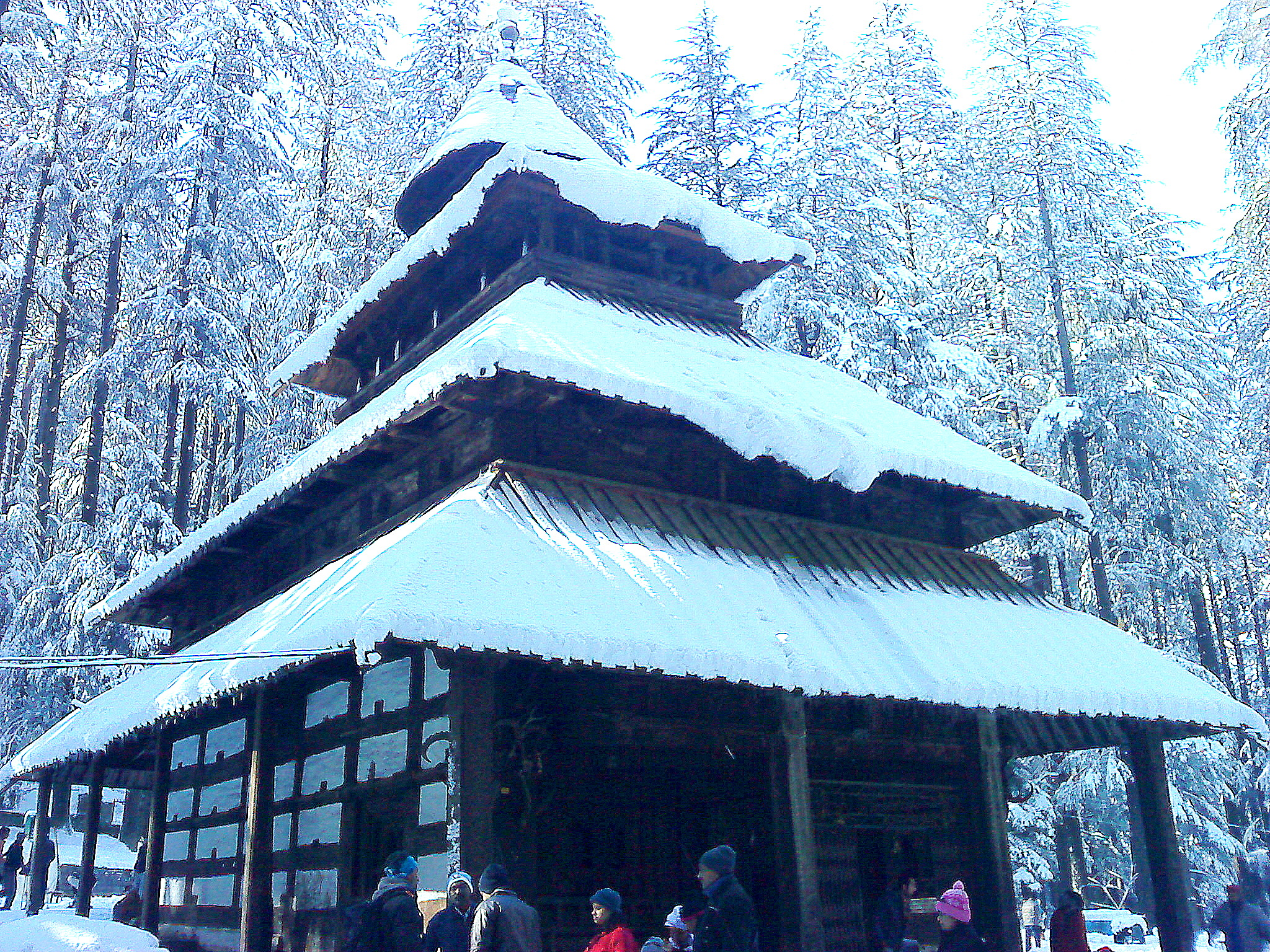 The sanctuary is built over a huge rock jutting out of the ground, which was worshiped as an image of the deity.The Temple has intricately carved wooden doors and a tall wooden "shikhar" or tower above the sanctuary.The earth goddess Durga forms the theme of the main door carvings.